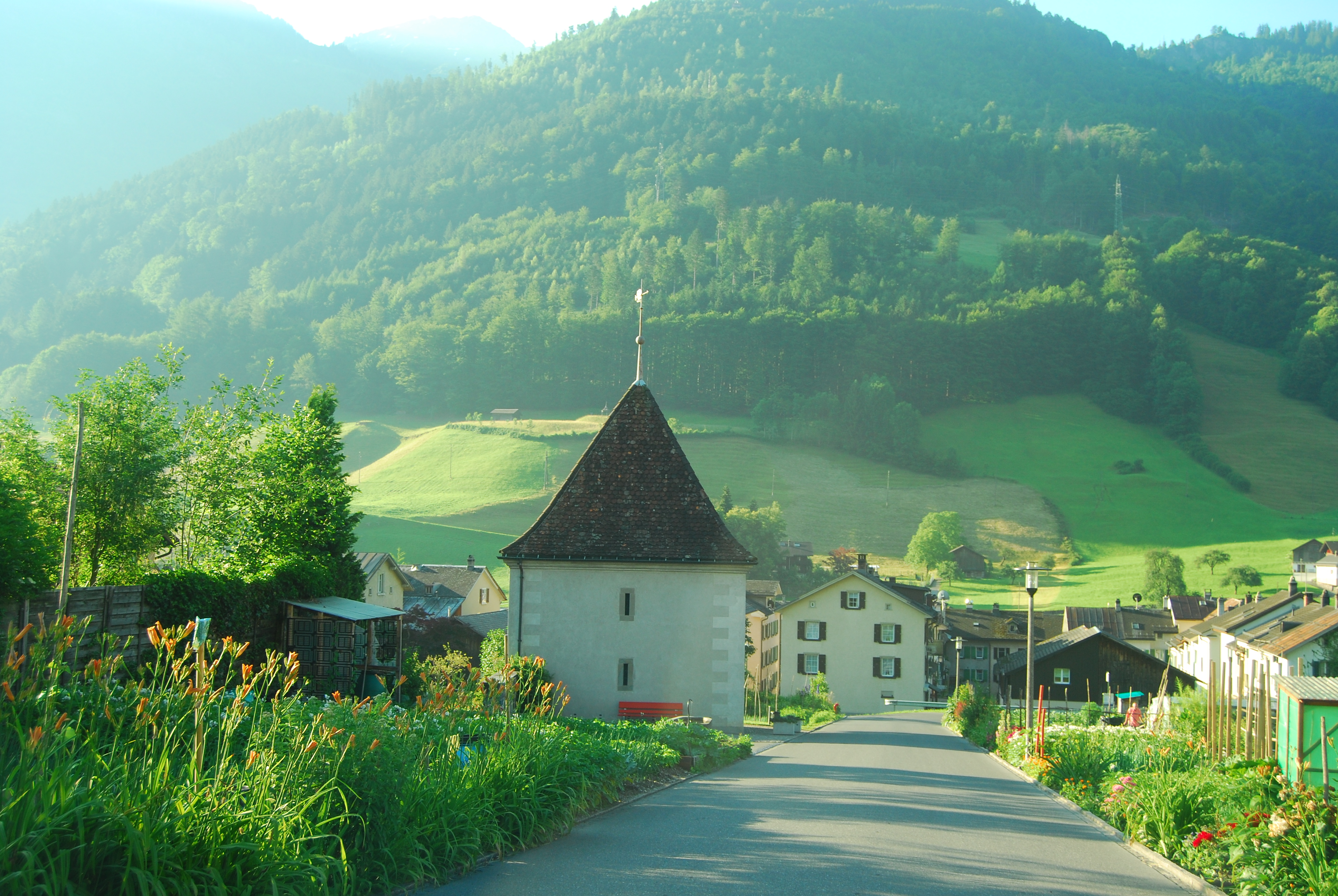 Powder Tower at Schwanden, canton of Glarus, Switzerland